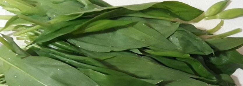 picked ramsons, with buds in the upper right corner